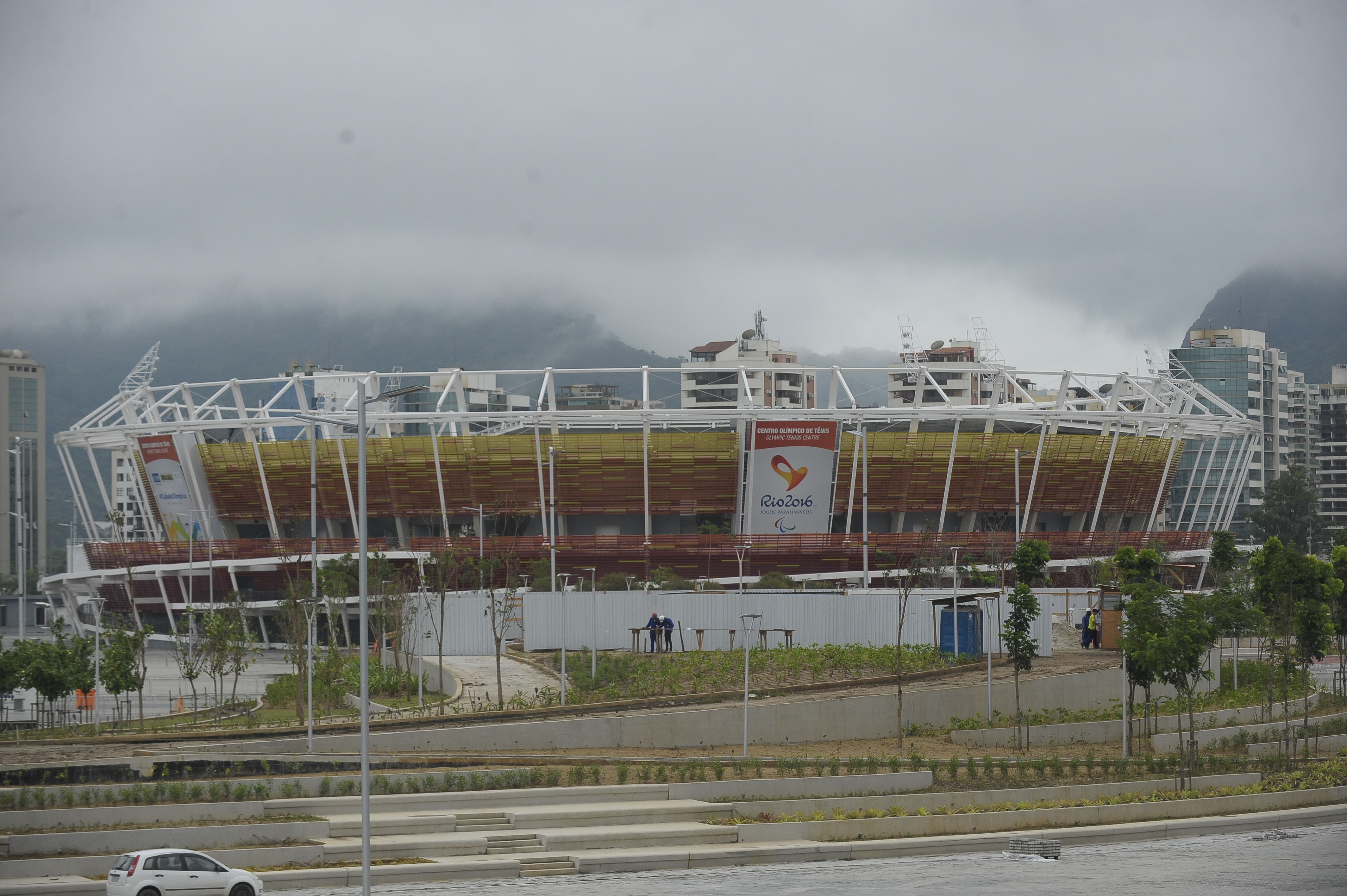 Maria Esther Bueno Stadium